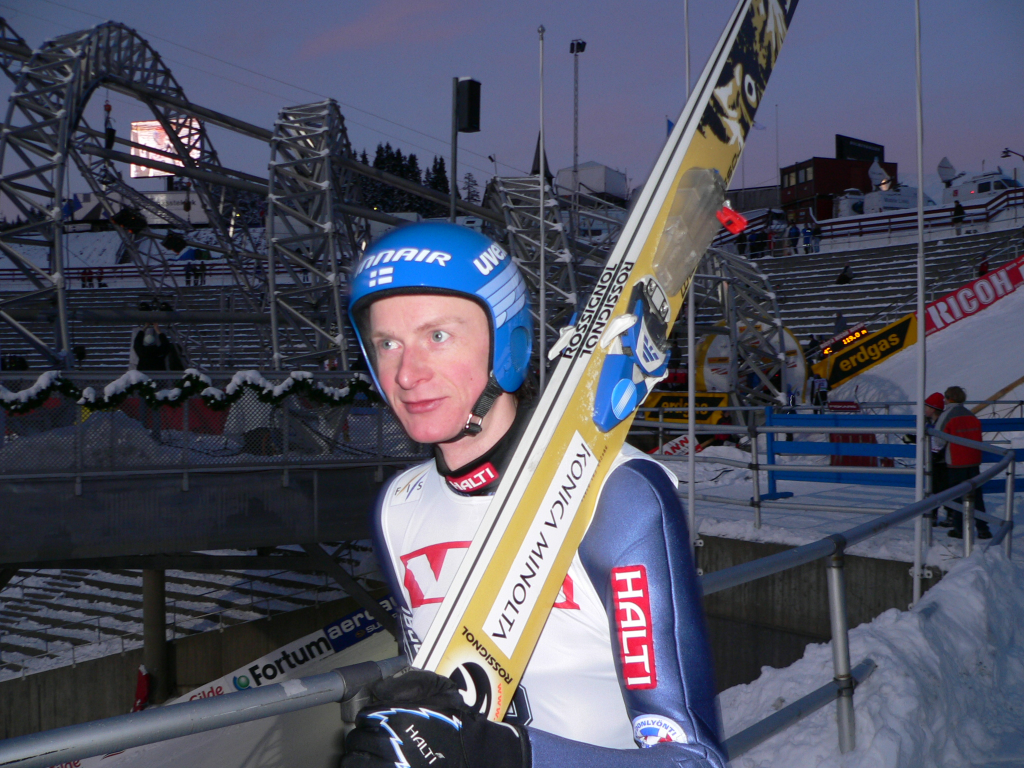 From the 2005 World Cup ski jumping event in Holmenkollen.